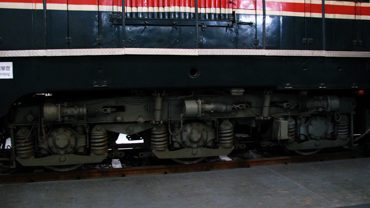 The bogie of China Railways ND3 diesel locomotive